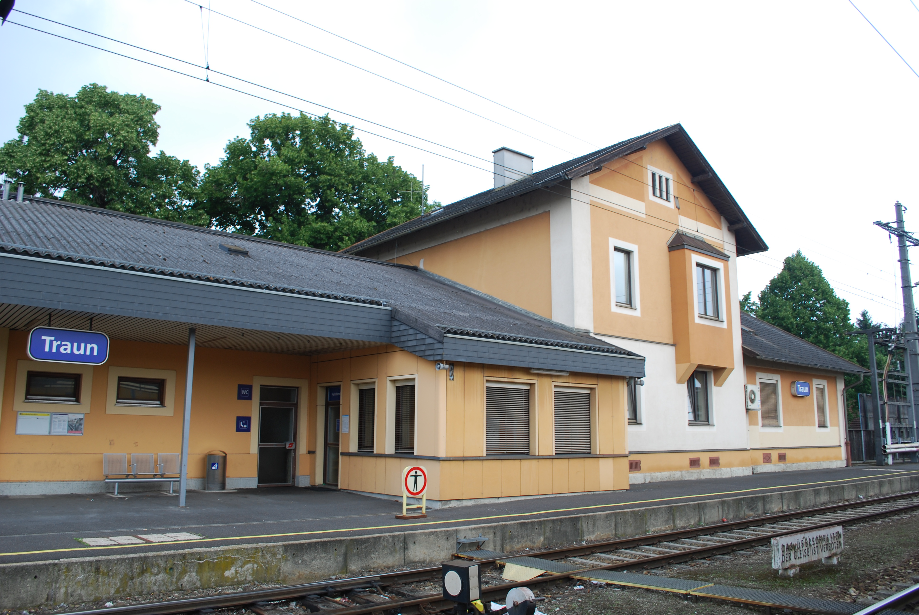 Trainstation Traun